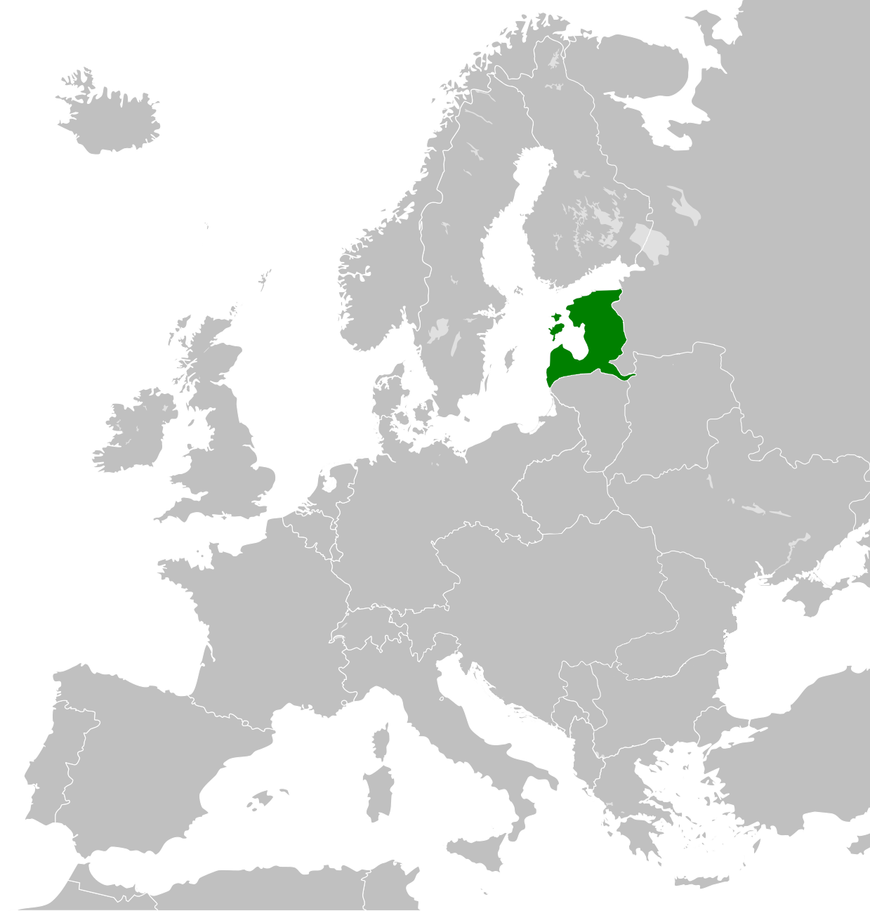 The United Baltic Duchy was a proposed state by the German Empire that would be composed of the Baltic Governorates of the Russian Empire.